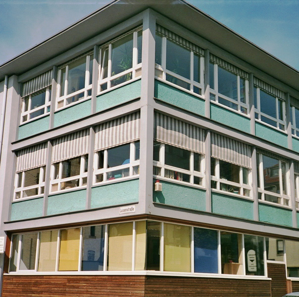 Hn-wilhelmstr_26_Ex-Autohaus_Heerman_eröffnet_am_19._Dezember_1953_Pläne_Architekt_Kurt_Marohn_Ecke.JPG